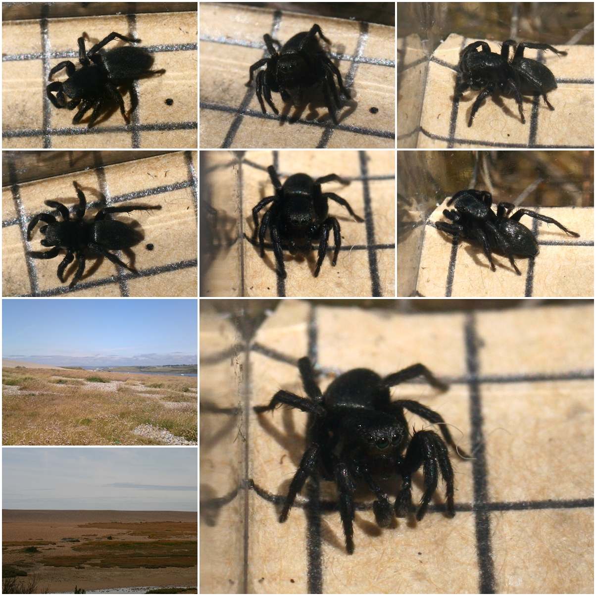 Phlegra fasciata (Salticidae). From east end of Chesil beach, near visitor centre, amongst short grass & thrift, landward side. 13th June 2011.